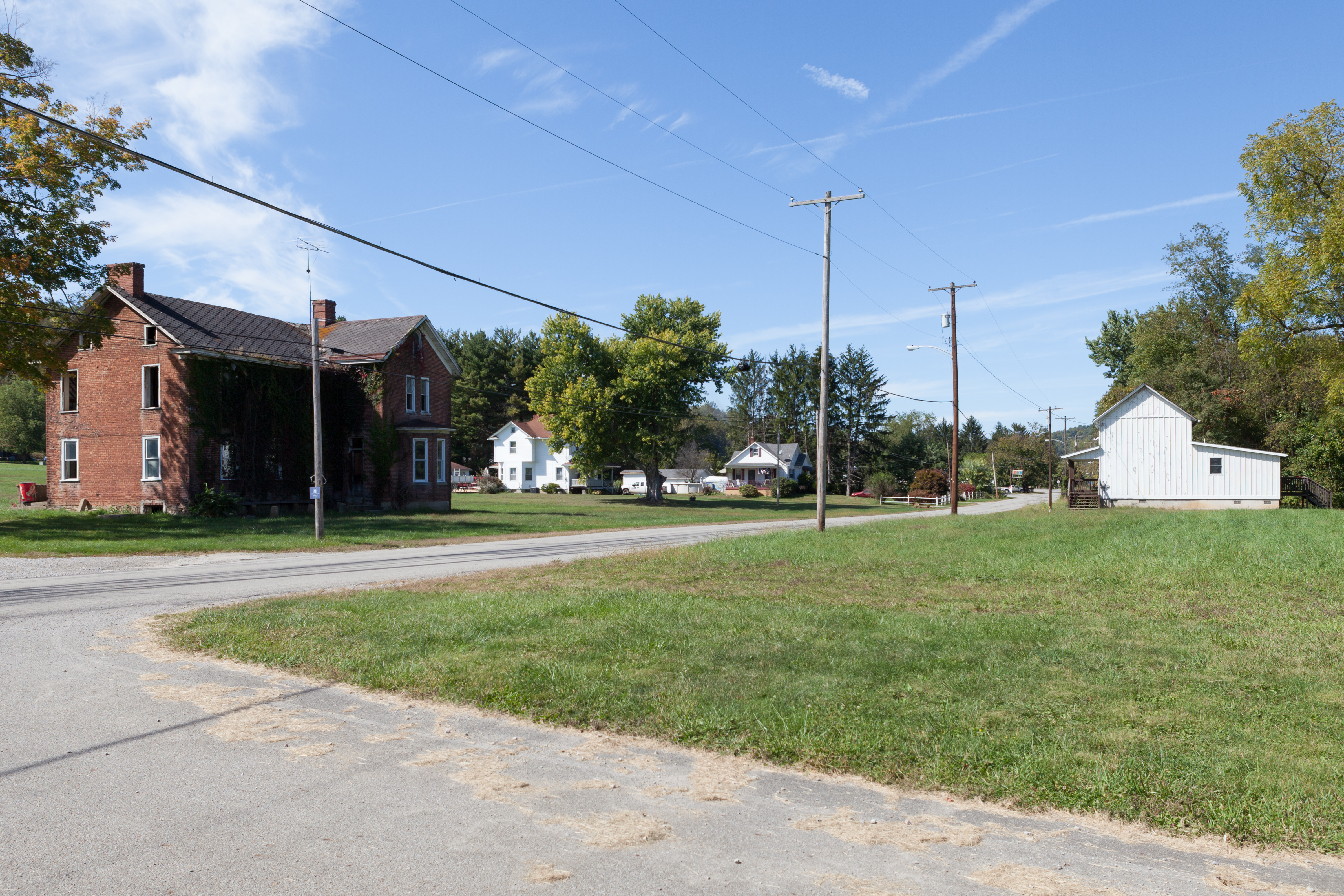 The former site of the Glassworks-Gabler House is the grassy area in the foreground. The Glassworks-Core House is on the right, the Reppert-Gabler House is across the street to the left.